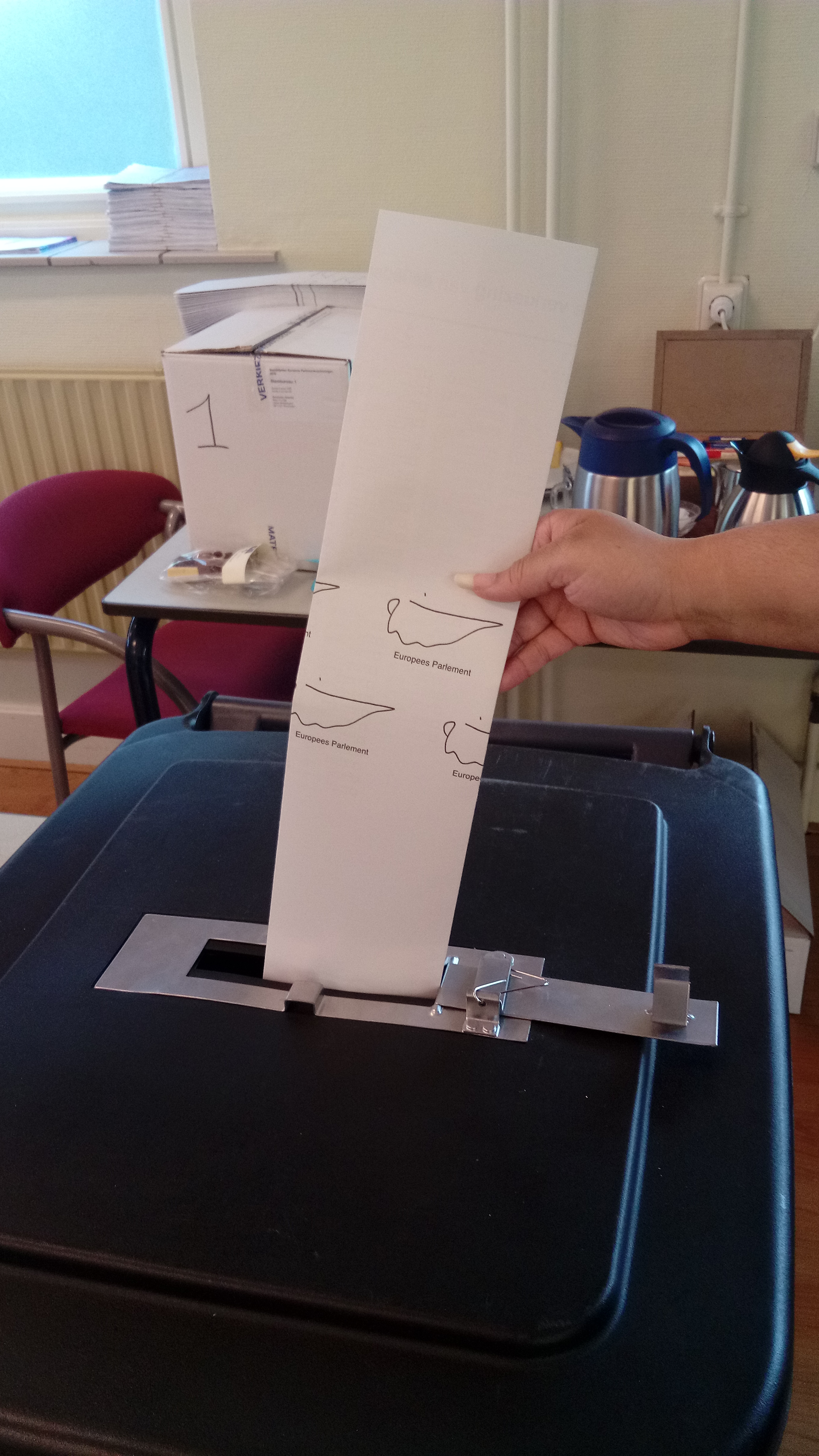 A young woman casting her vote during the European Parliamentary elections 2019 in the Groninger city of Winschoten, Oldambt.